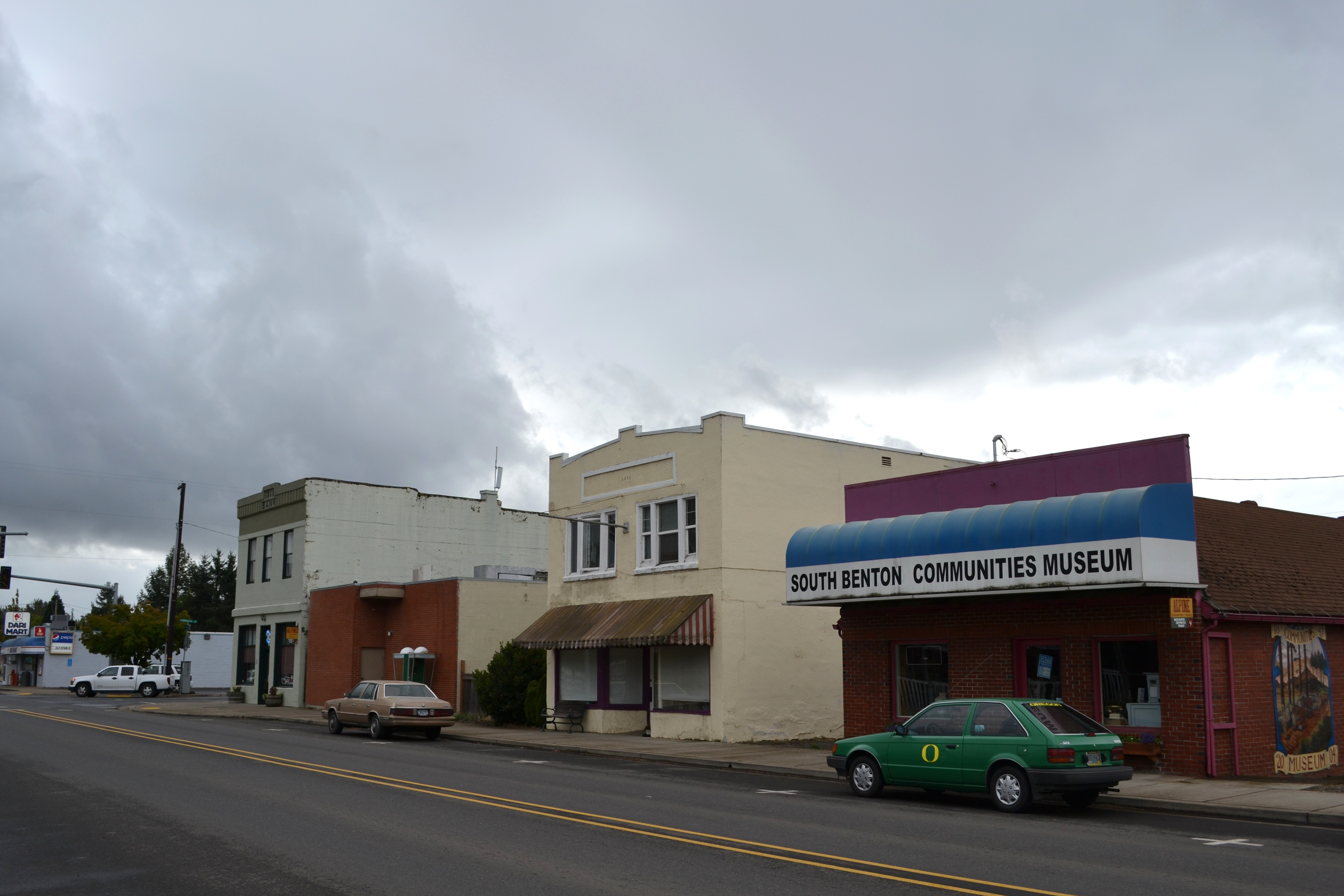 Monroe, Oregon